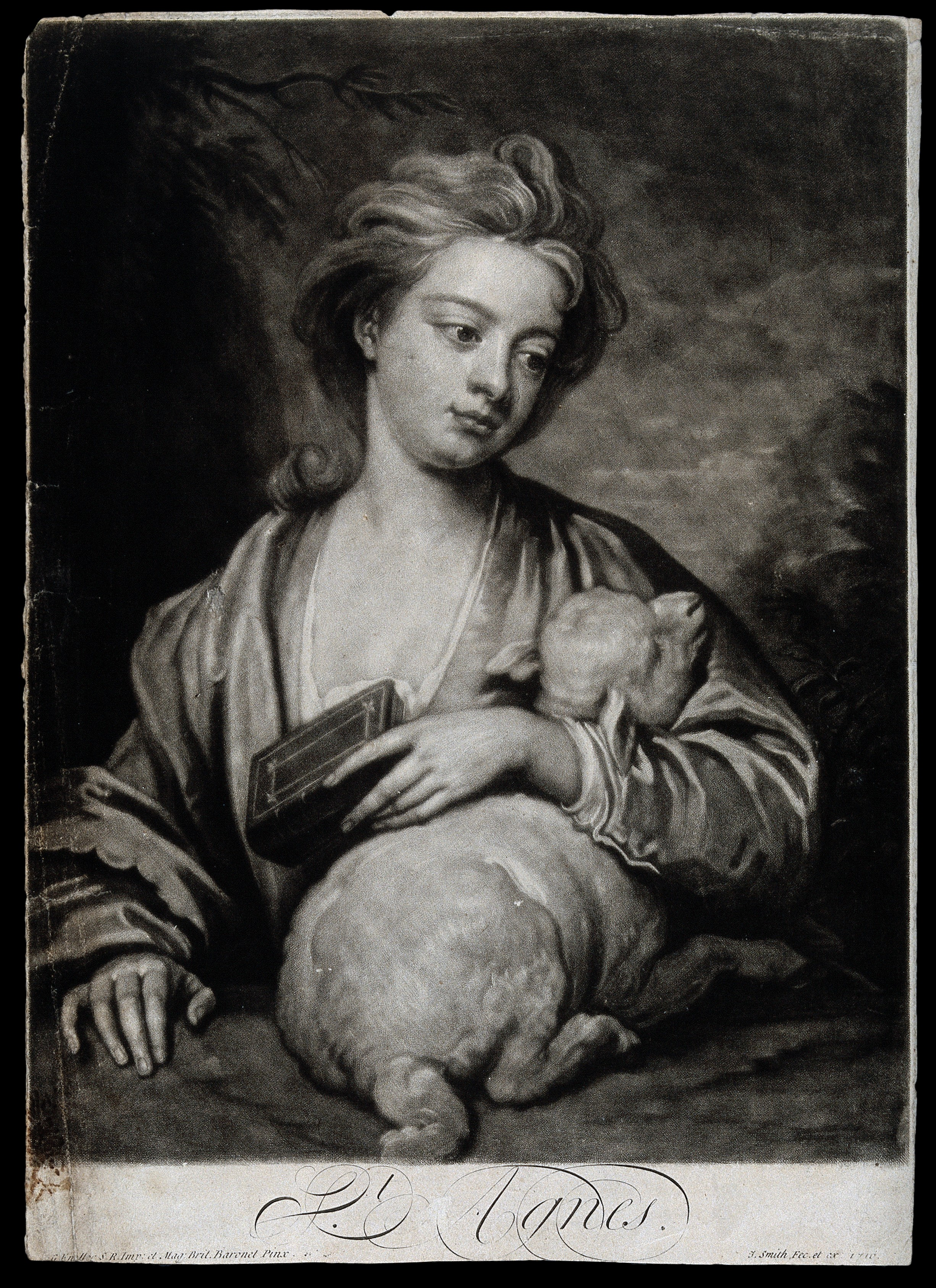 Saint Agnes. Mezzotint by J. Smith, 1716, after Sir G. Kneller. Iconographic Collections